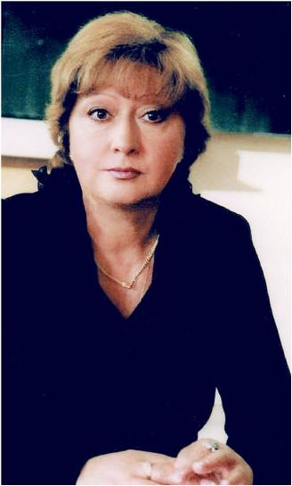 Bronzova Tatyana